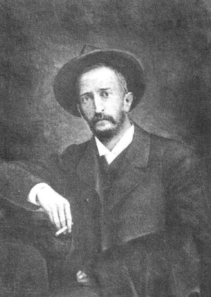 Oil painting depicting Jakša Račić, mayor of Split from 1929 until 1933.